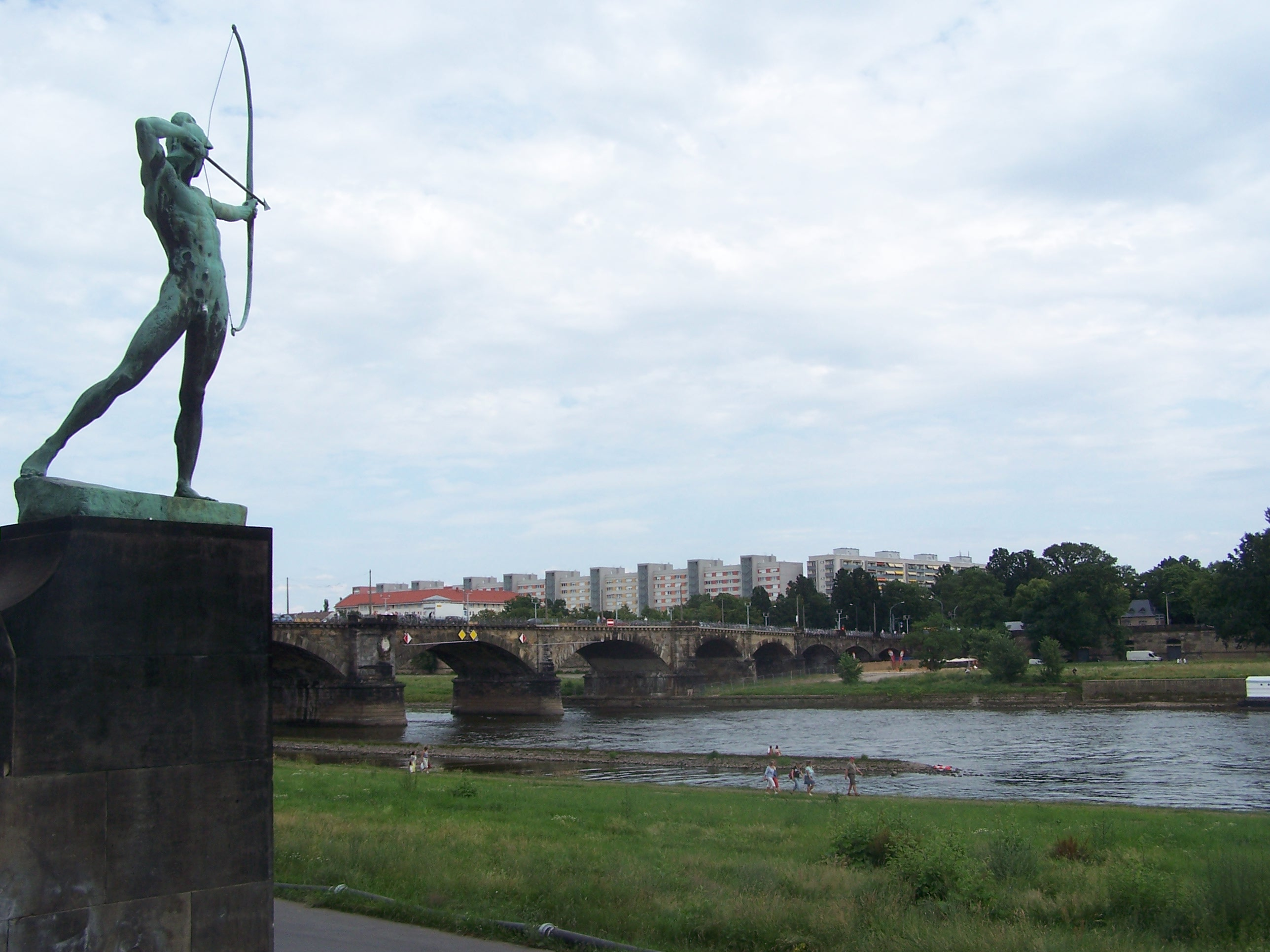 sculpture of a bowman at the bridge “Albertbrücke” in Dresden, Germany